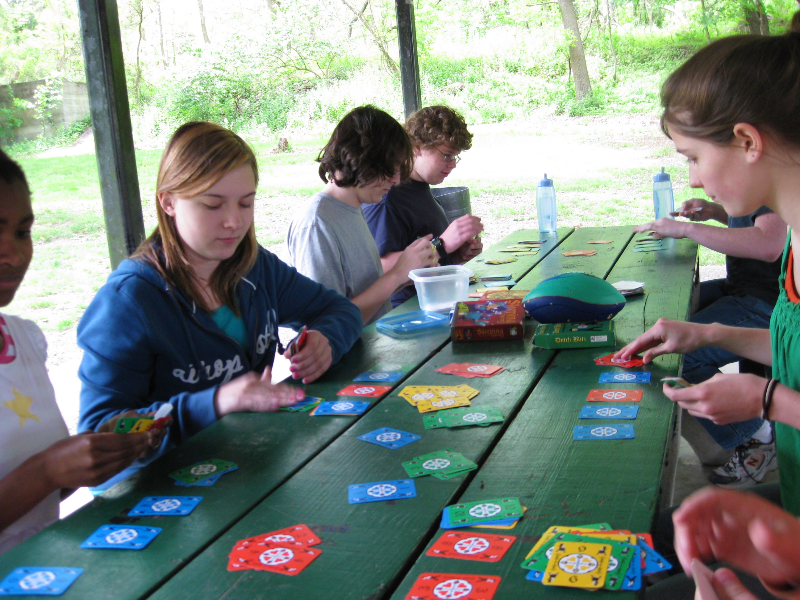 Homeschool Picnic